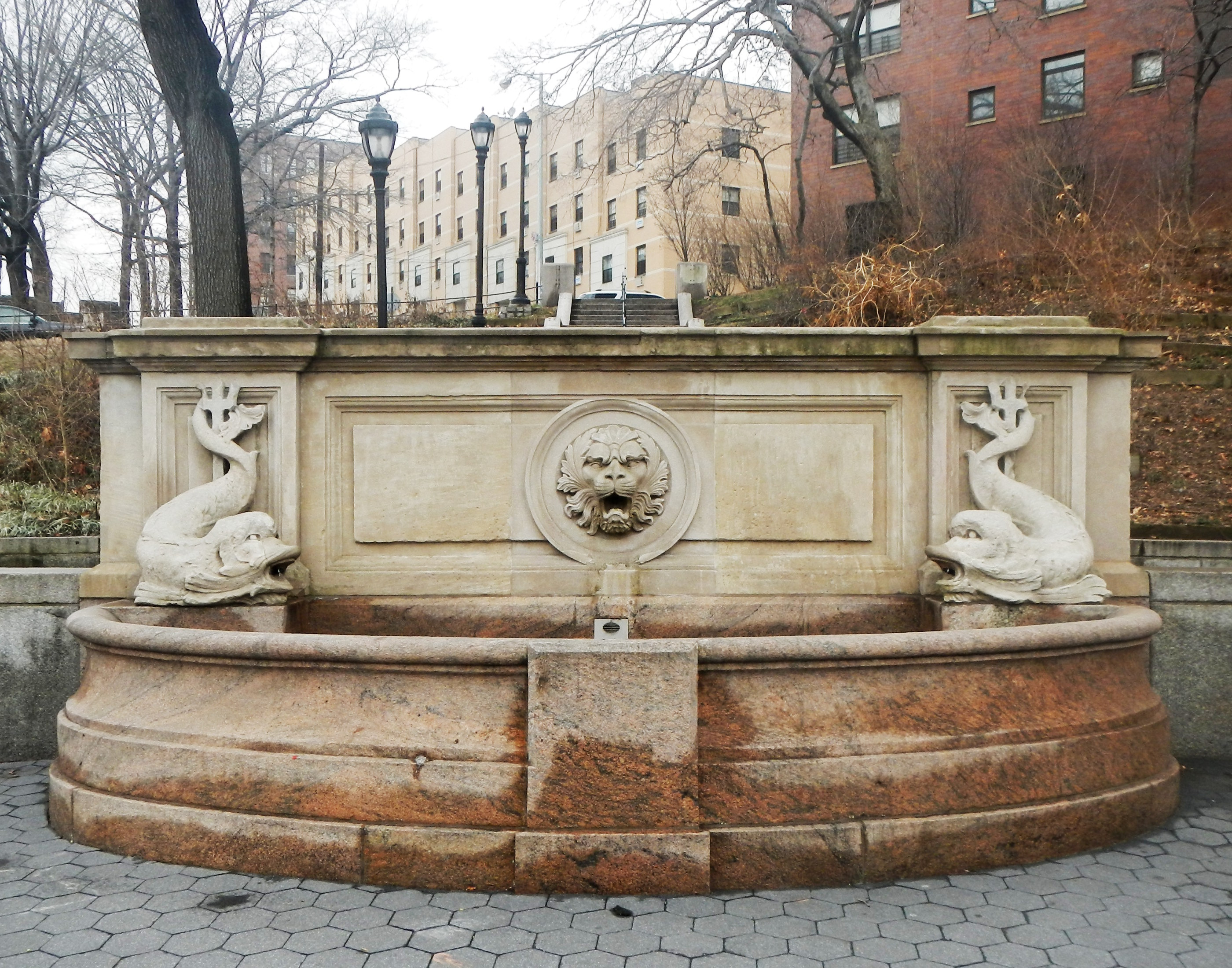 Looking northwest at lion fountain on a cloudy day.